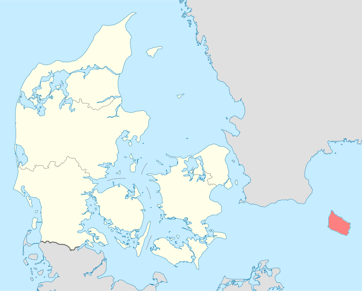 Bornholm Island